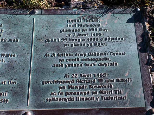 Mill Bay plaque - Welsh. Welsh detail of plaque commemorating Henry Tudor landing at Mill Bay in 1485.